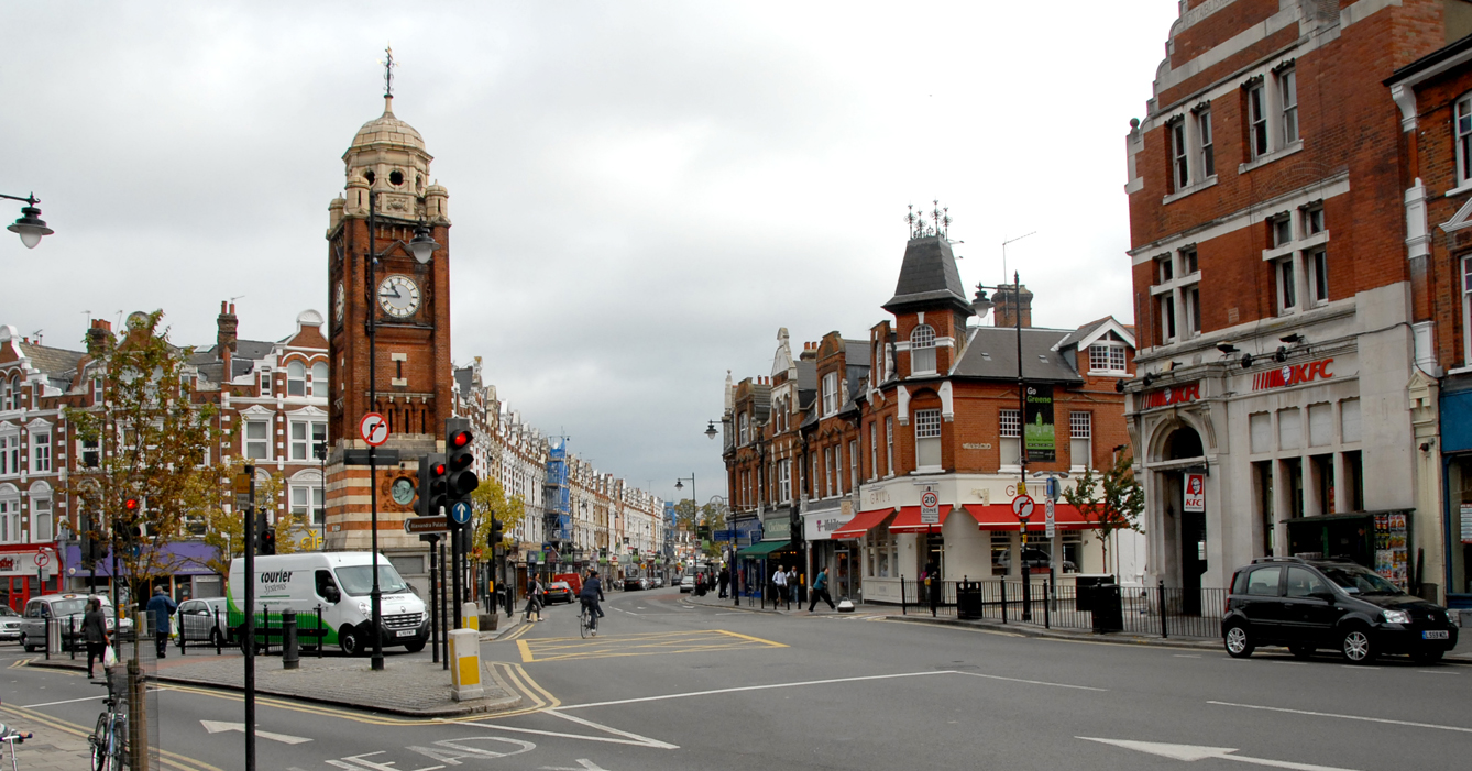 Crouch End Broadway, looking north. Park Road branches to the left and Tottenham Lane to the right.